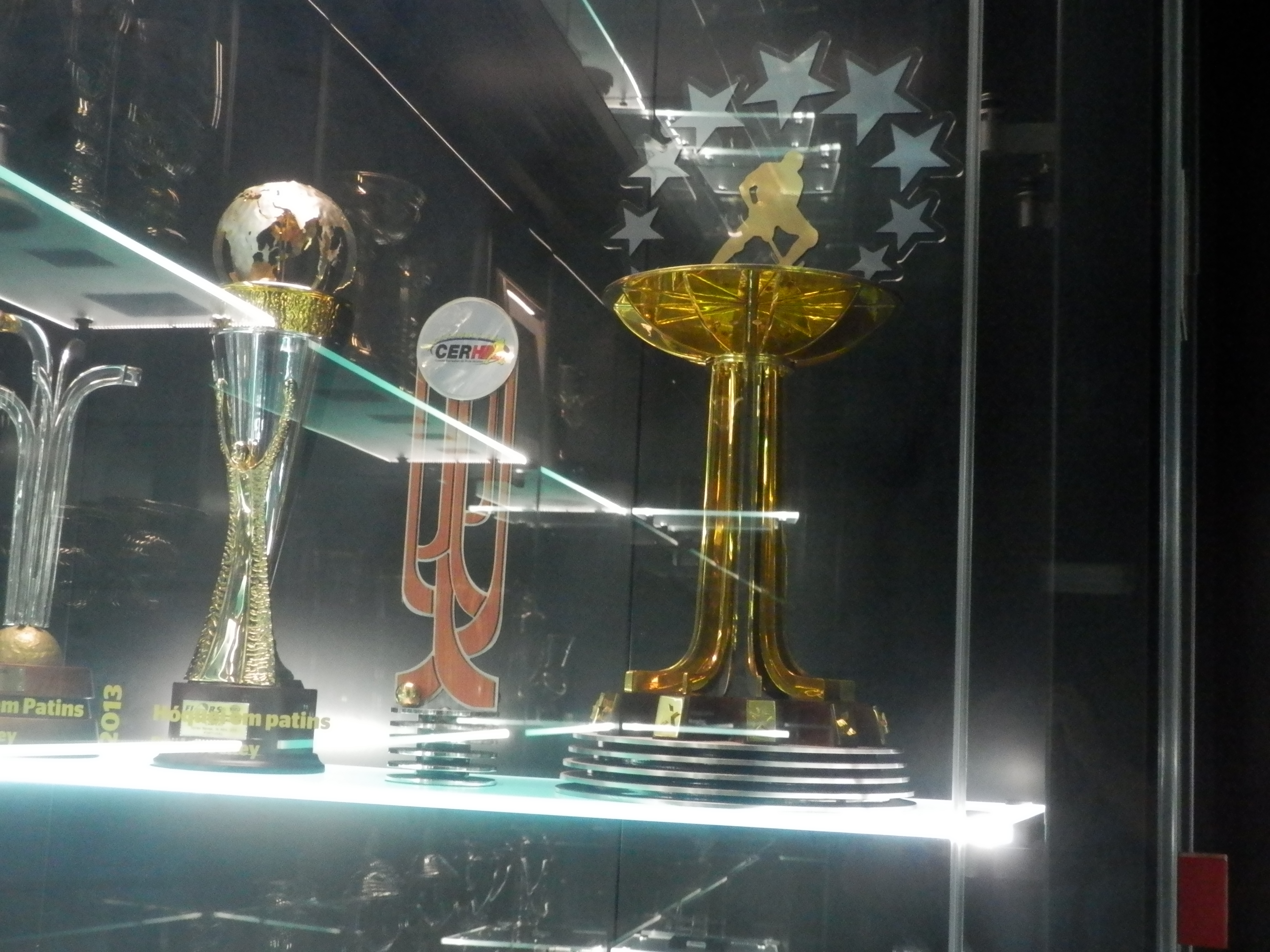 The trophy awarded by CERH for winning the top club competitions for men